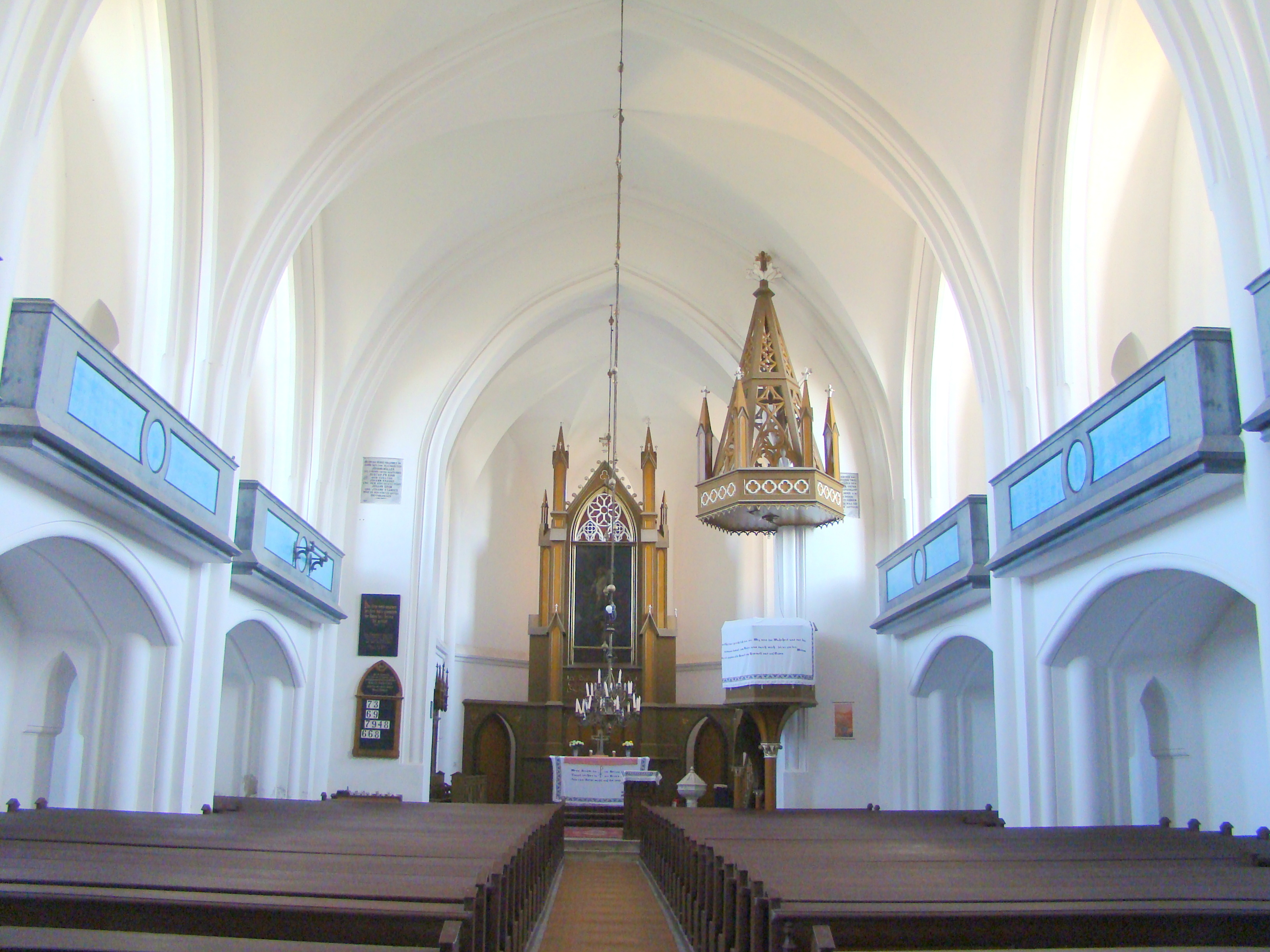 Lutheran church in Dedrad, Mureş county, Romania